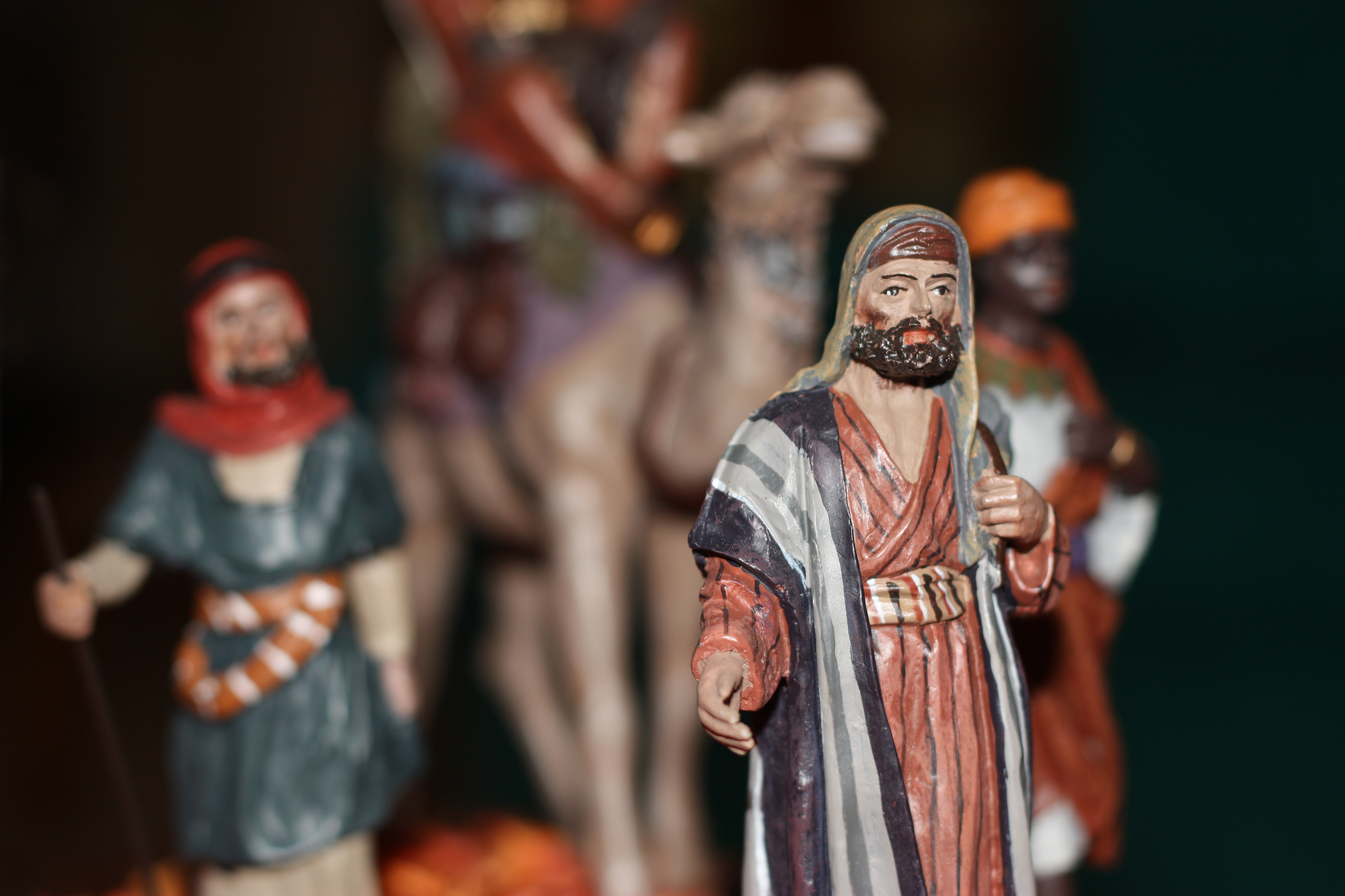 Nativity scene - santons of a pilgrim caravan.